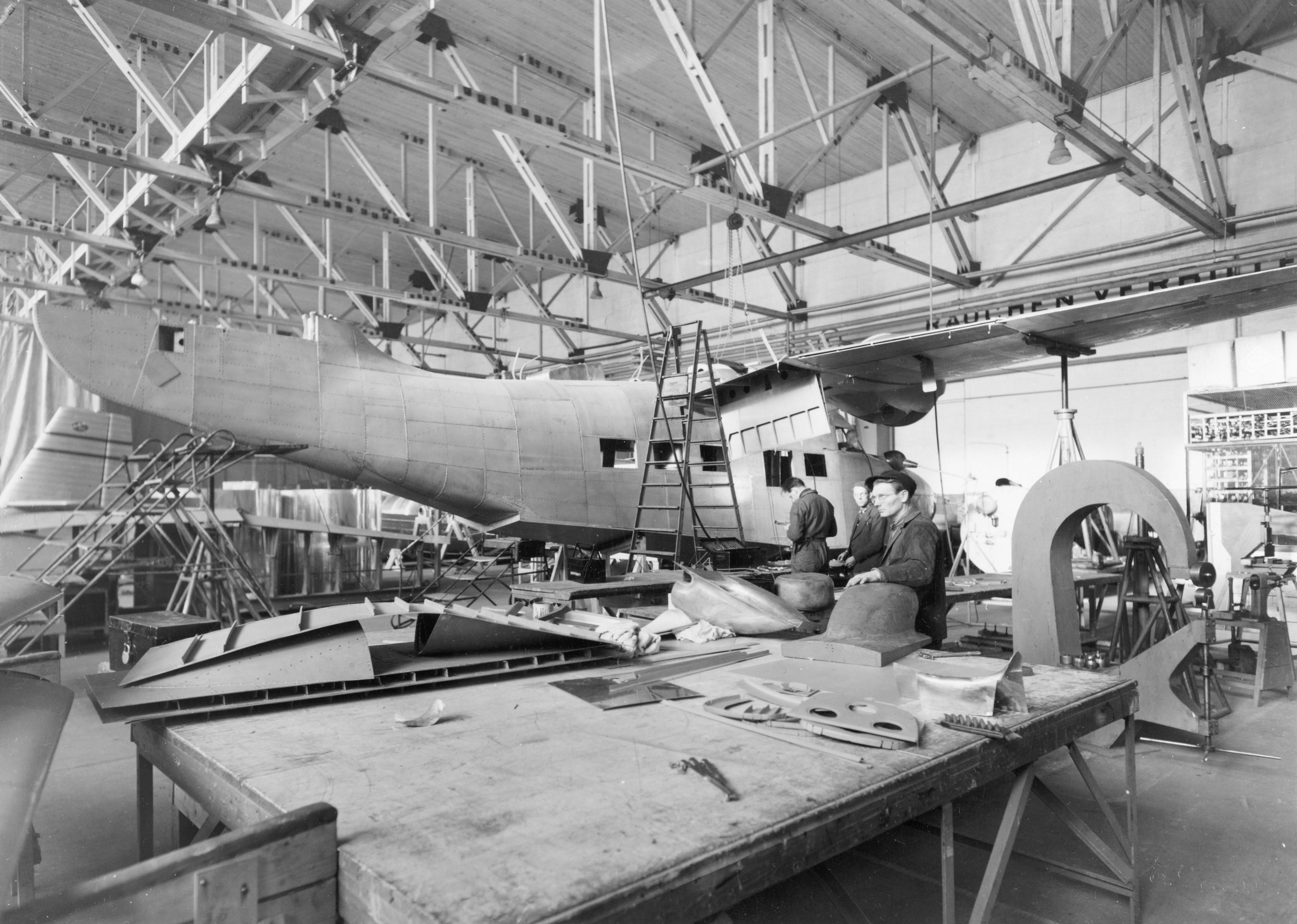 Amphibious aircraft Norsk Flyindustri Finnmark 5-A under construction.